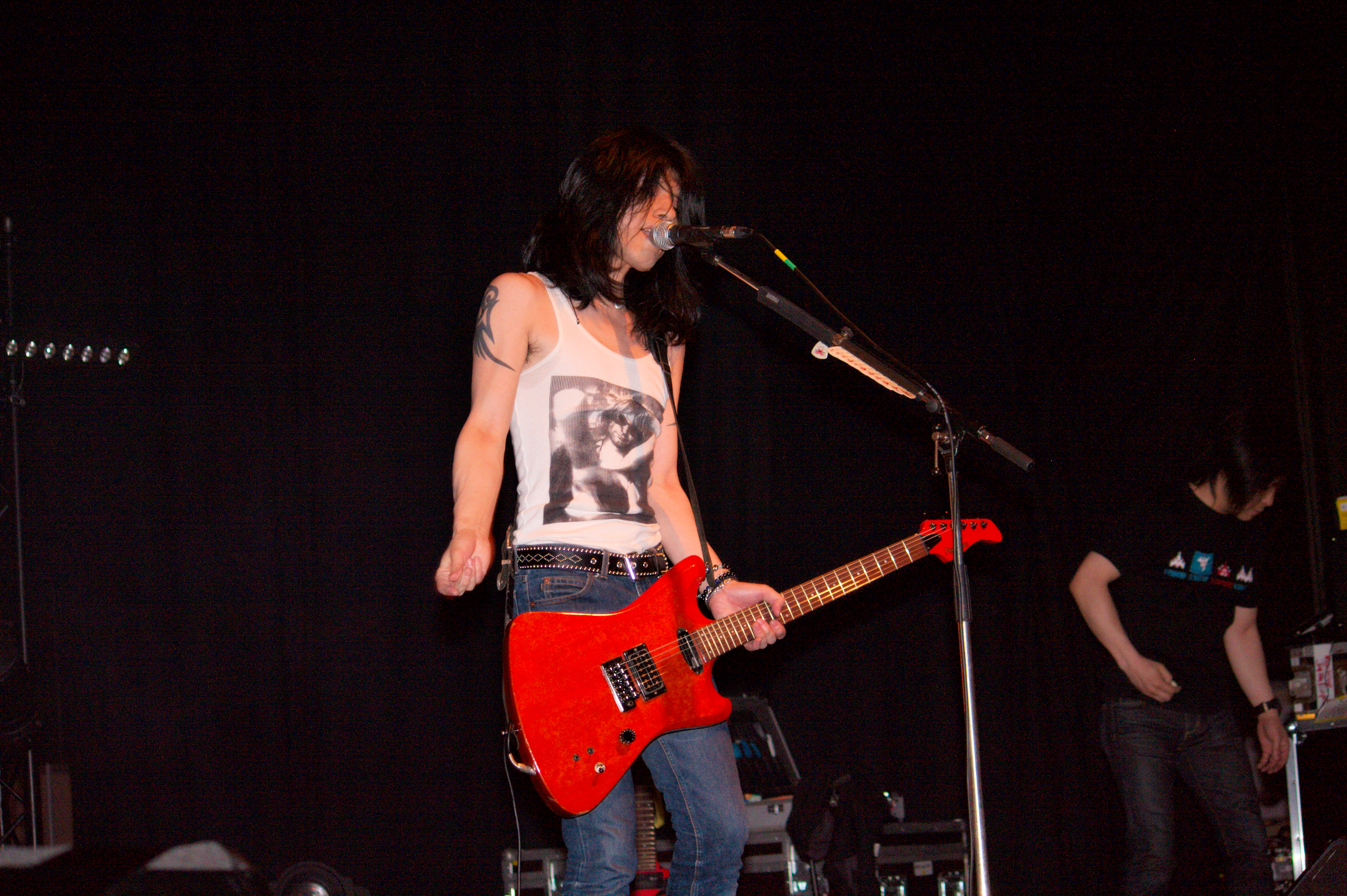 machine live at Japan Expo 2008 (Paris, France).